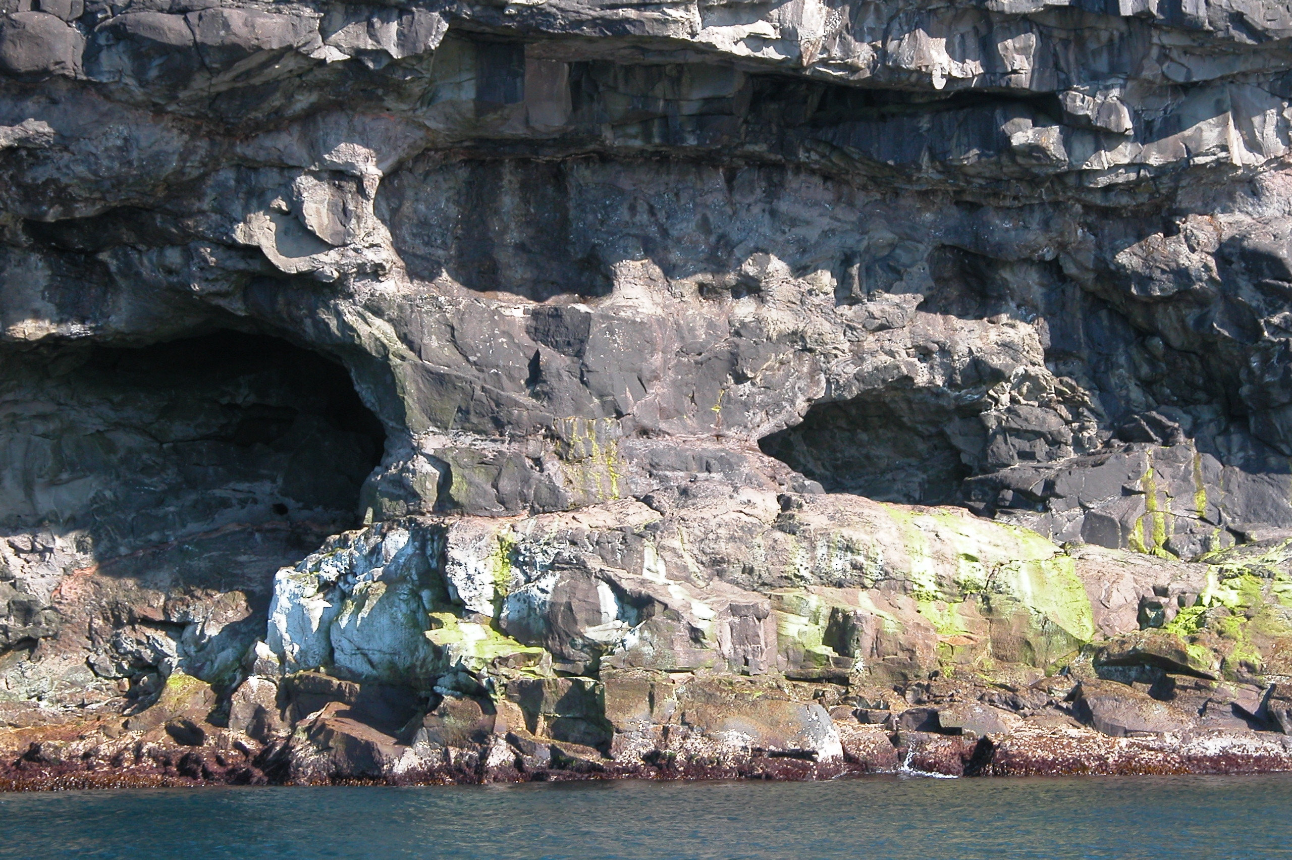 Coast of Svínoy, Faroe Islands.